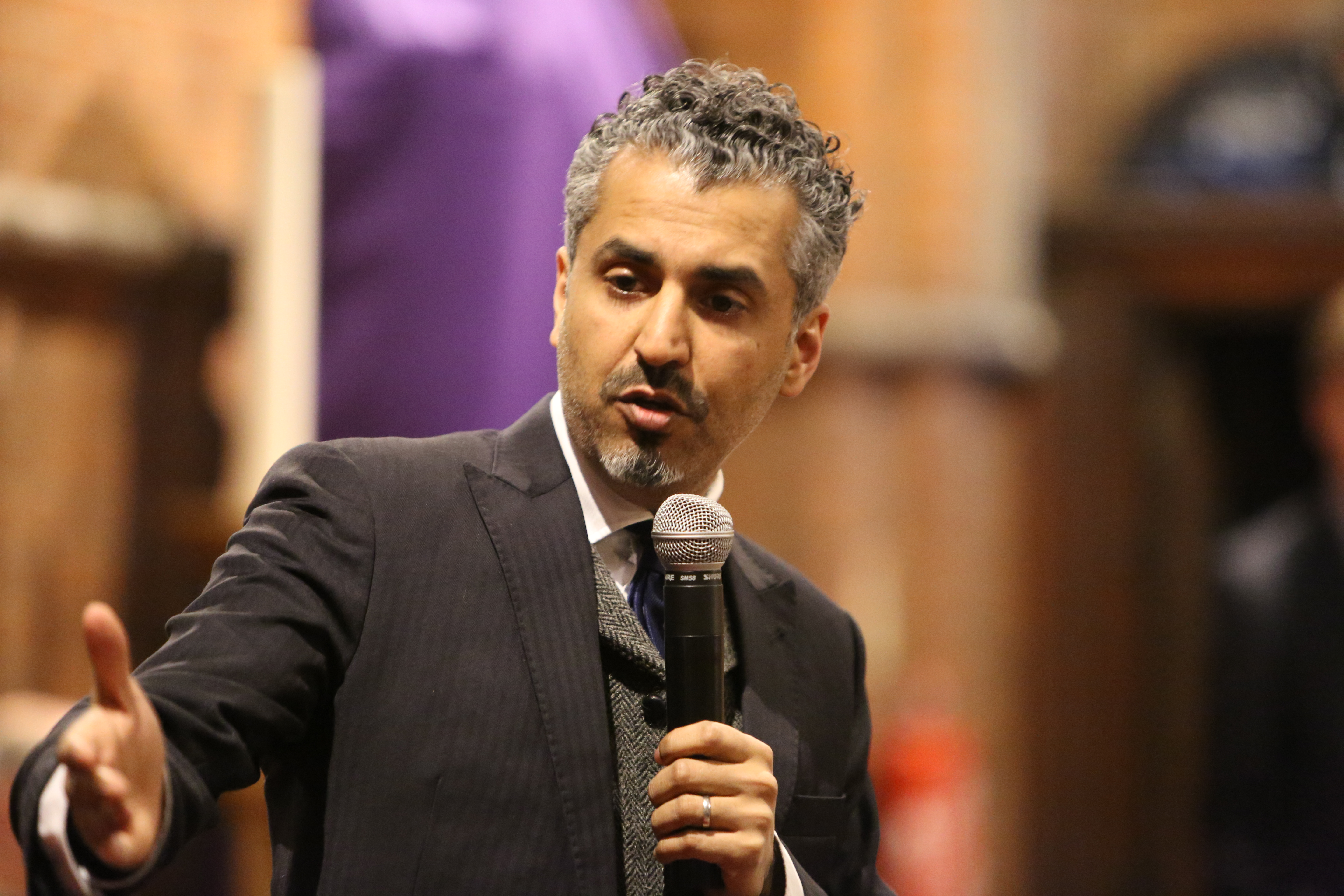 West Hampstead, London elections hustings 2015